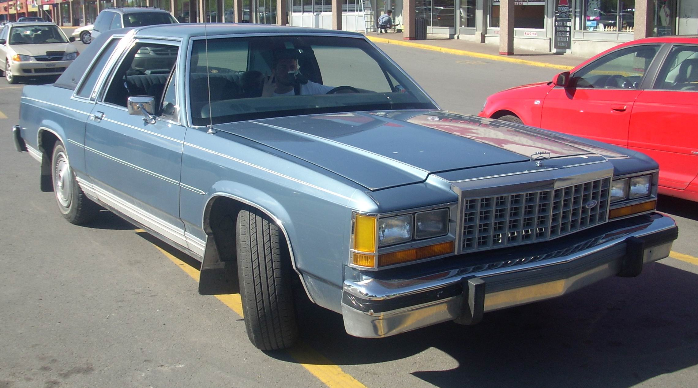 1987 Ford LTD Crown Victoria photographed in Montreal, Quebec, Canada.